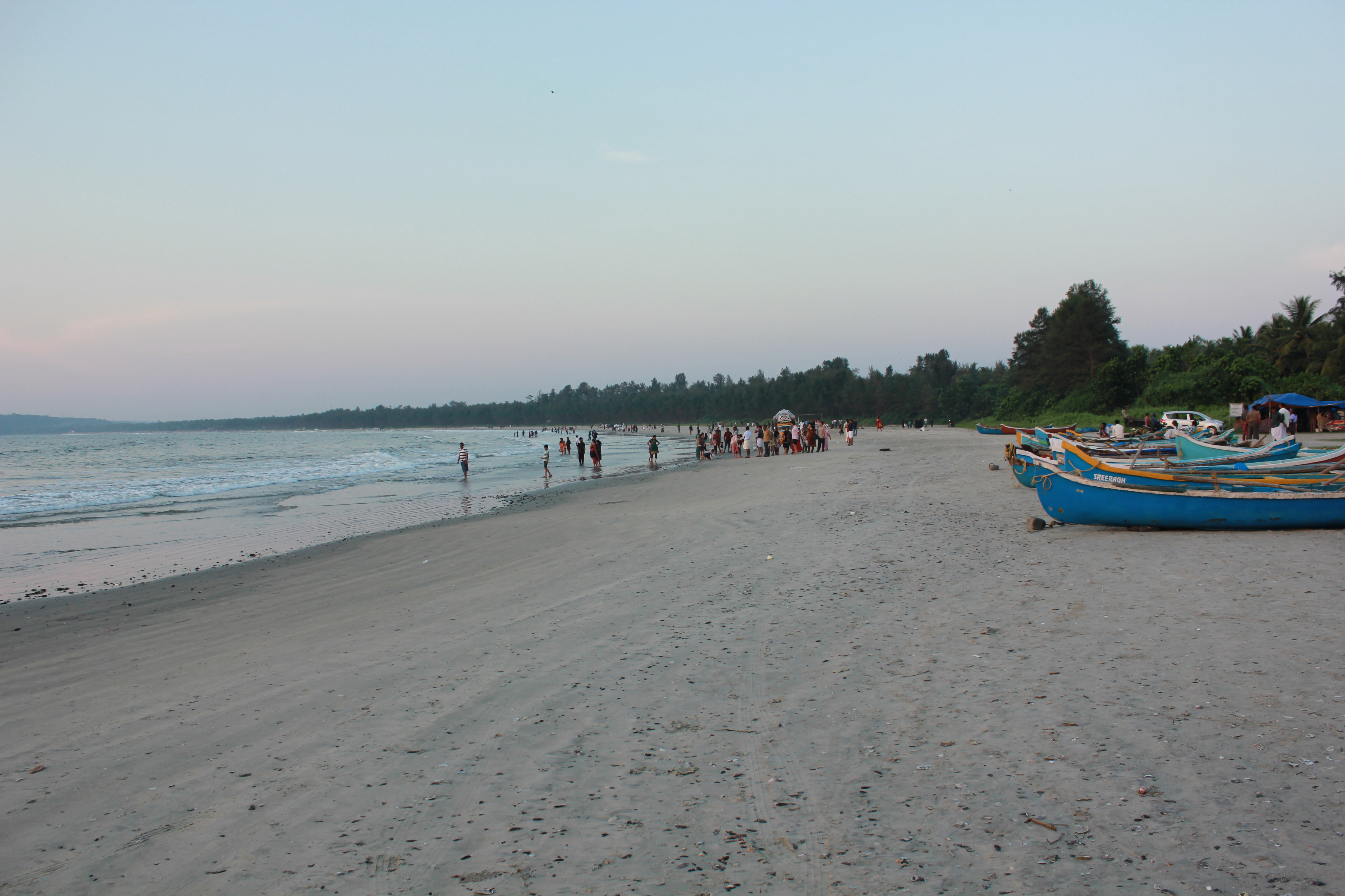 Muzhappilangad Drive-In Beach Full View